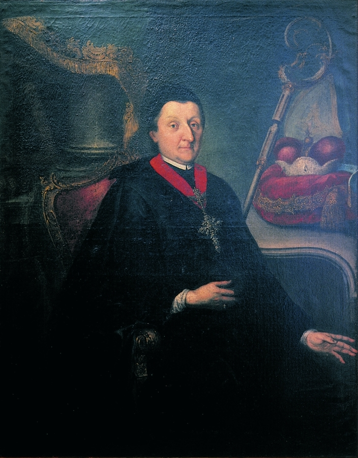 Martin II Gerbert, prince abbott of St. Blaise Abbey